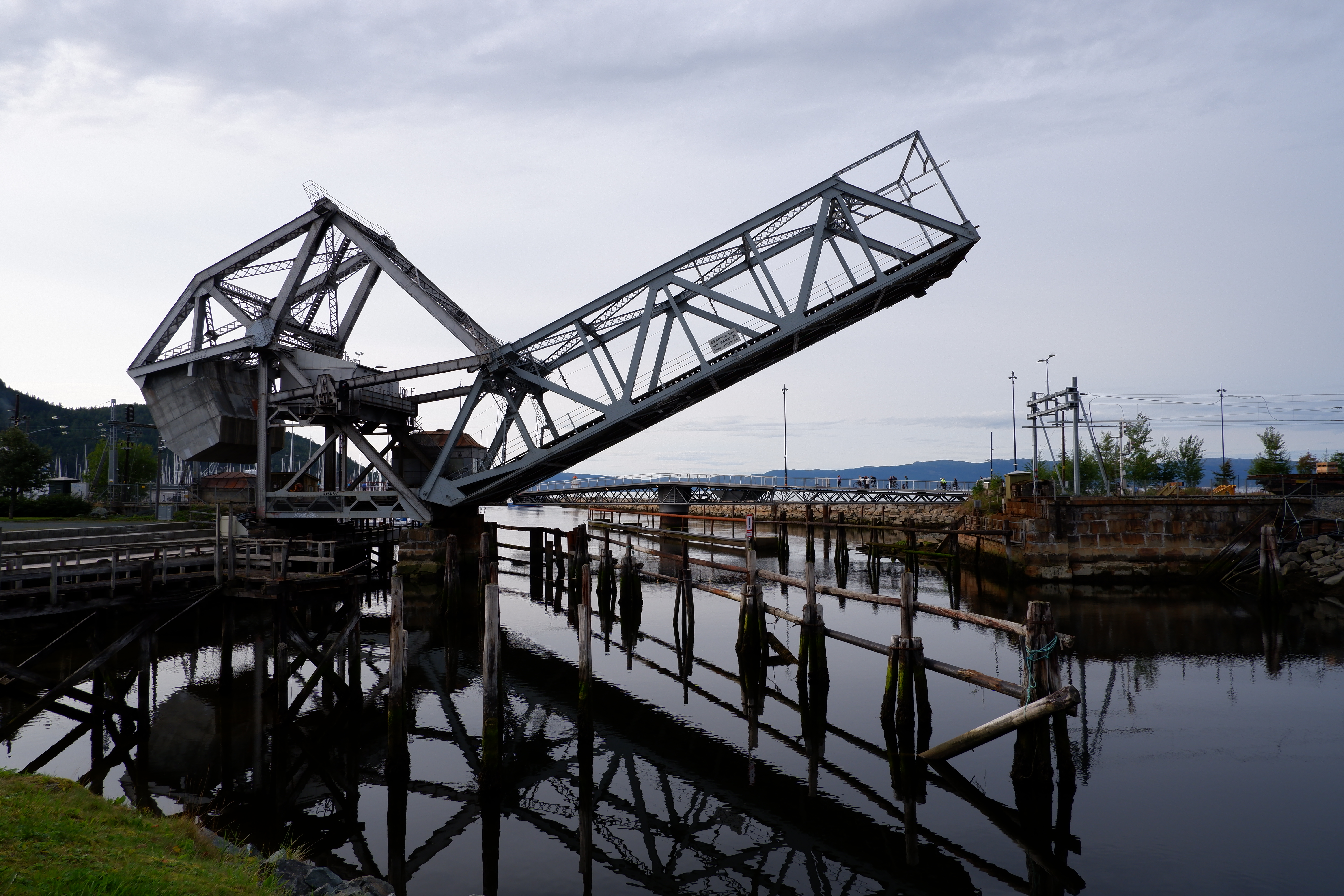 Skansen bridge in Trondheim, photographed as it is lowered after a passing boat, august 2018.